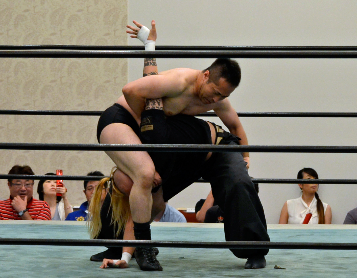 manjigatame